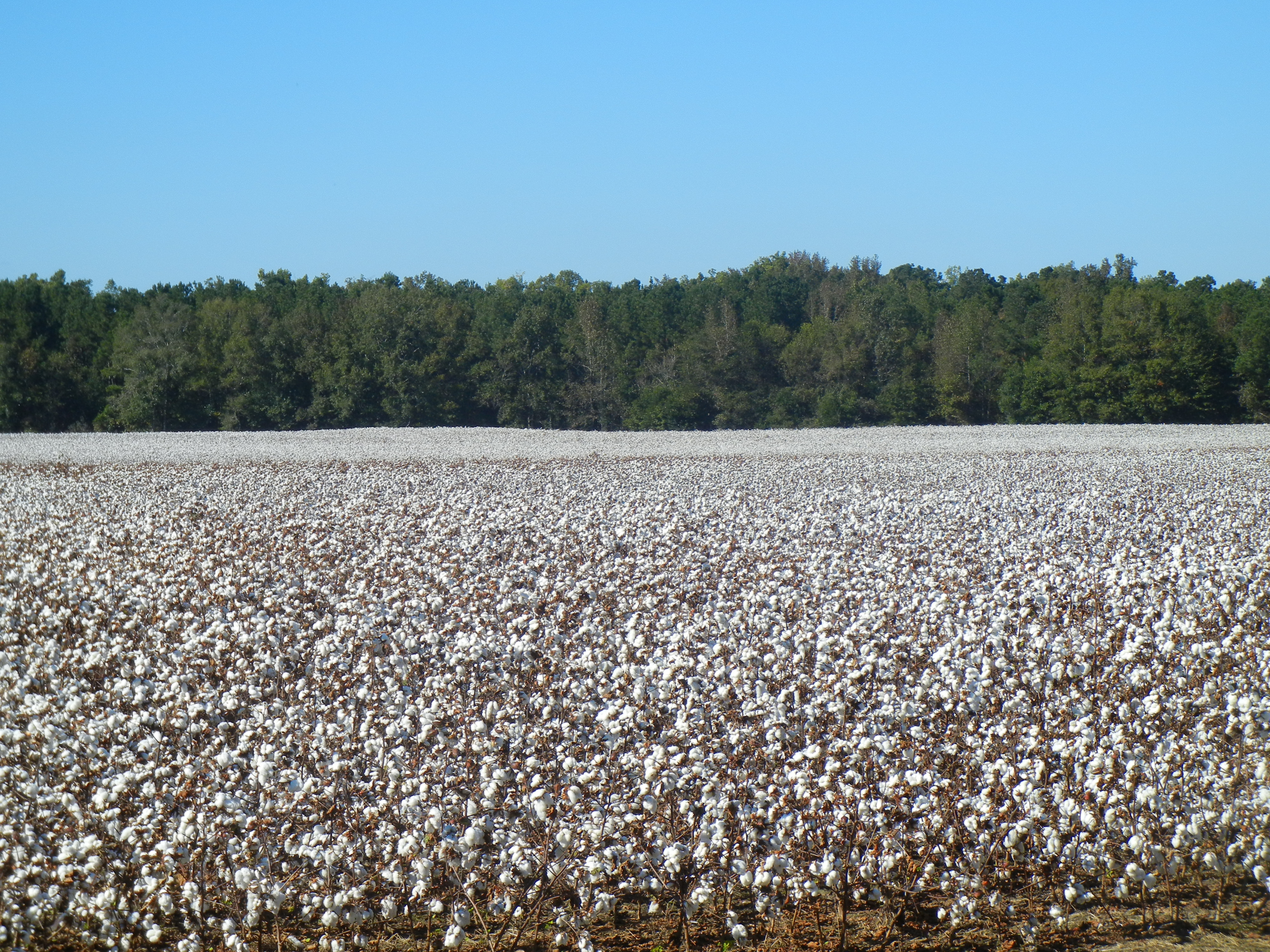 cotton in the field